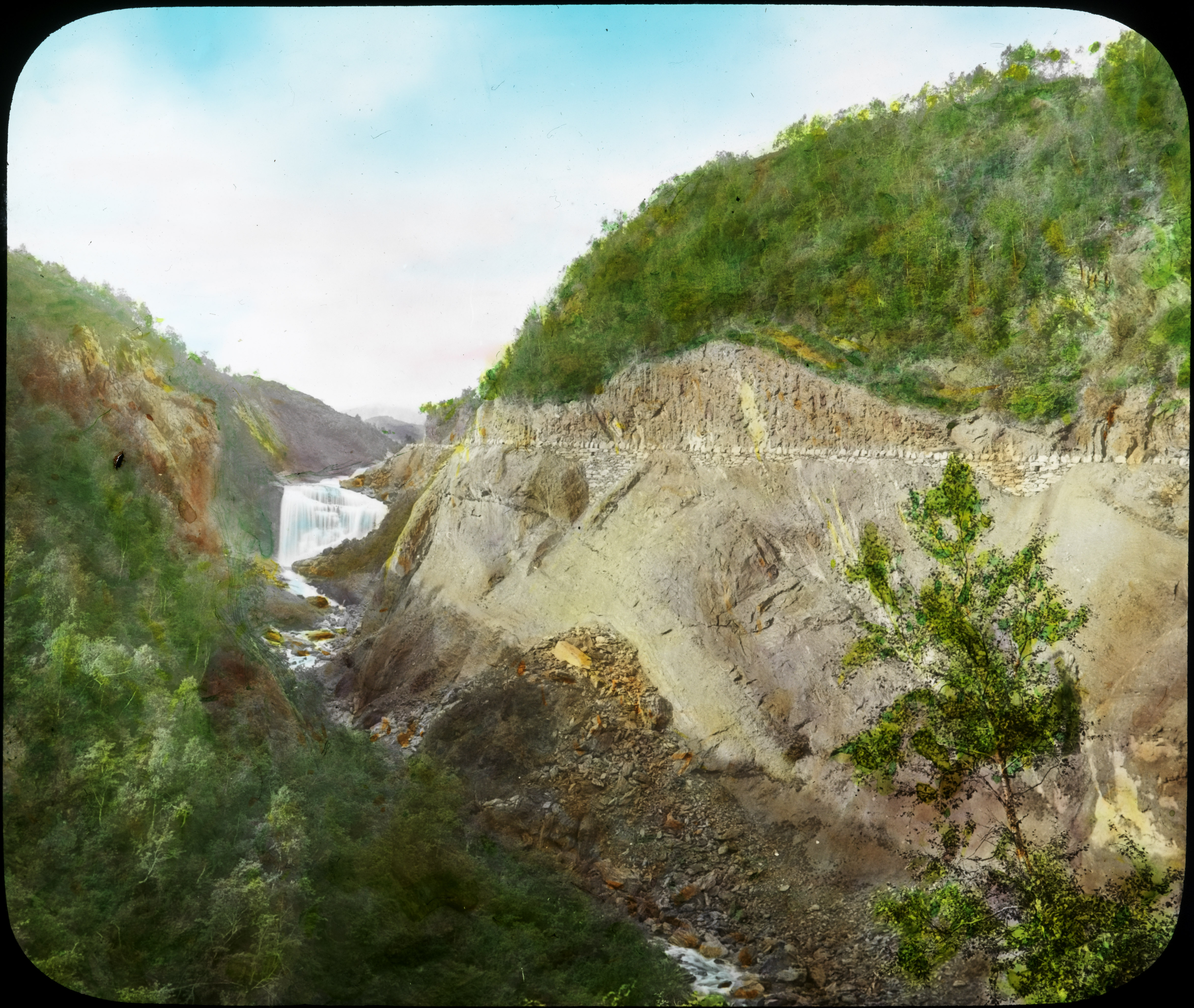 SFFf-1992078.0017 Tokagjelet, Kvam. The road through Tokagjelet was built in the years 1903-1907.